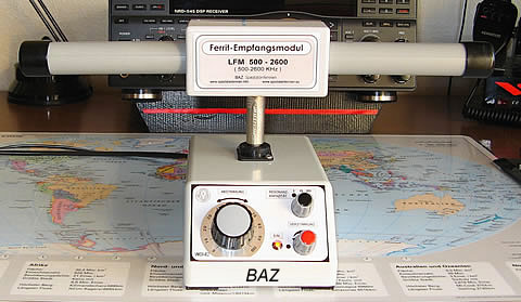 Ferrite Antenna, Ferrite Rod Antenna for Amateurradio, EMC